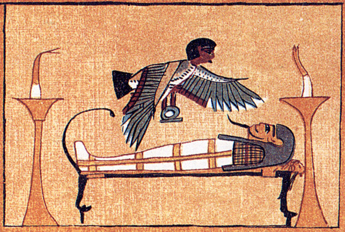 Facsimile of a vignette from the Book of the Dead of Ani. The ba of the deceased Ani hovers over his mummy as it lies on a bier. The unification of ba and corpse depicted here was considered necessary for the survival of the soul after death. At either side are lamps. The ba clutches a shen-ring, symbolizing eternity and protection.